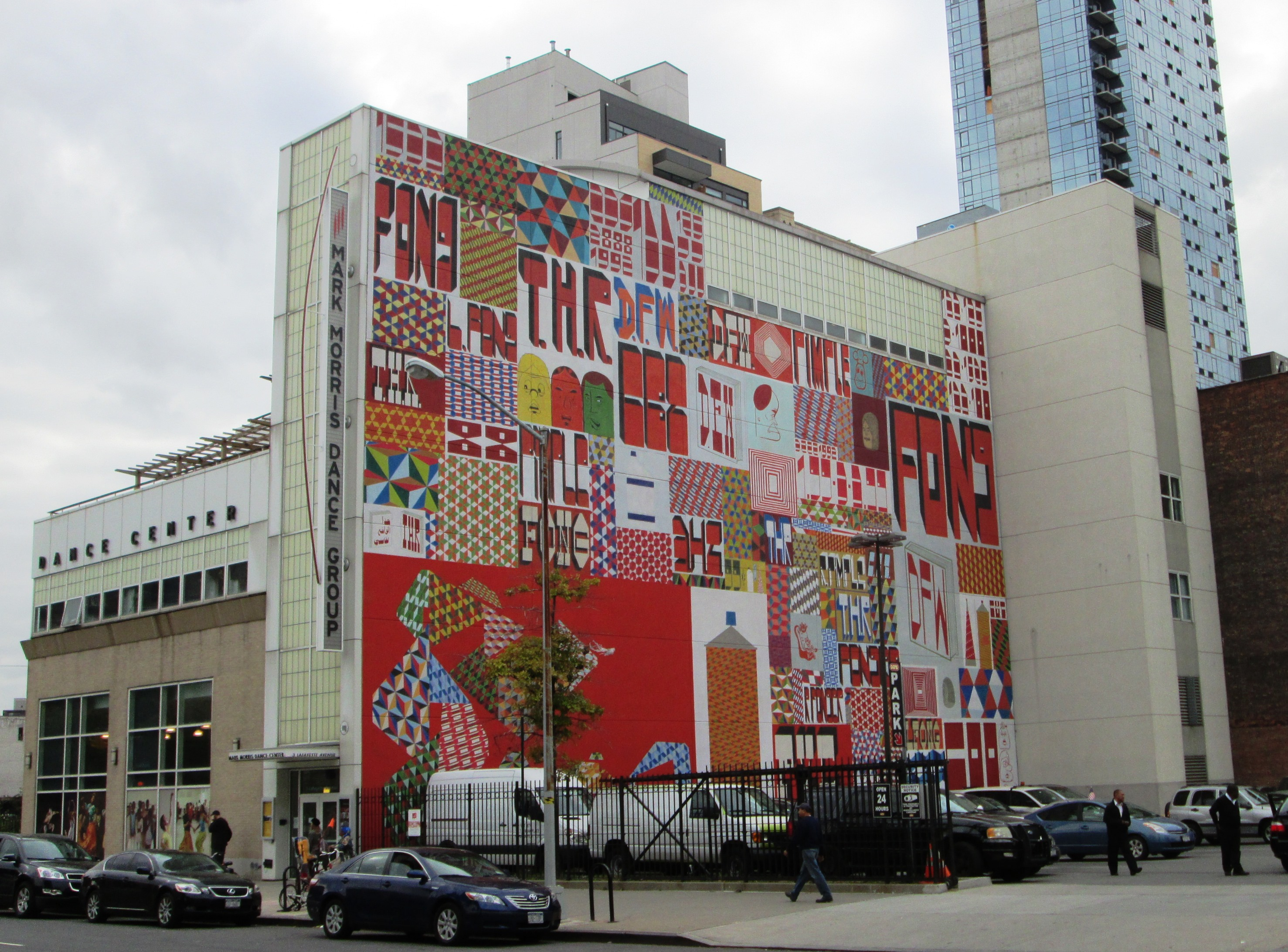 The Mark Morris Dance Center, at 3 Lafayette Avenue at the corner of Rockwell Place in the Fort Greene neighborhood of Brooklyn, New York City, is the home of the Mark Morris Dance Group, which purchased the derelict building in 1998. It was renovated from 1999-2001 by Beye Blinder Belle. The dance compnay was founded in 1980. (Source: [1] and [2])